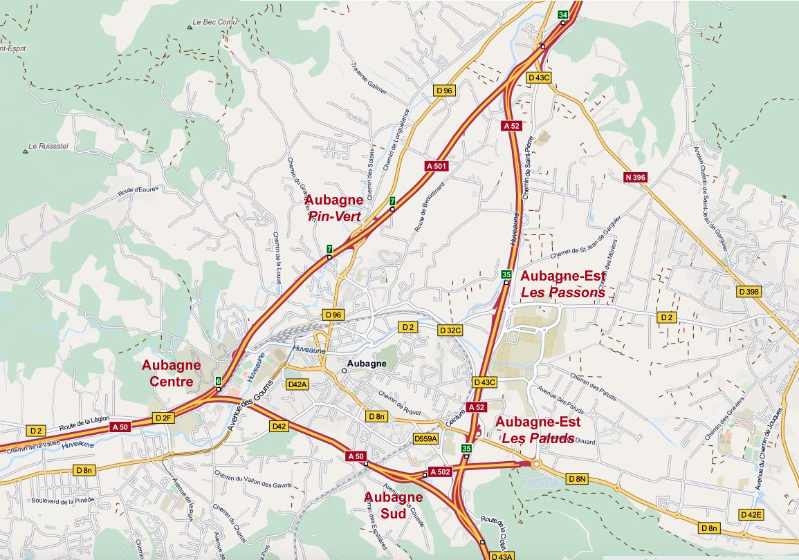 Road map of Aubagne